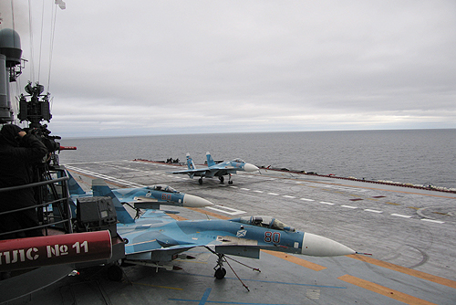 BARENTS SEA. On board the Aircraft Carrier Admiral Kuznetsov.